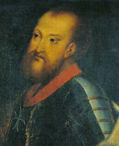 Picture of Portuguese infante D. Luís (Louis), Duke of Beja. Licensing 19:44, 27 Fevereiro 2006 L Gonçalves 246x300 (24715 bytes) (Duque de Beja)